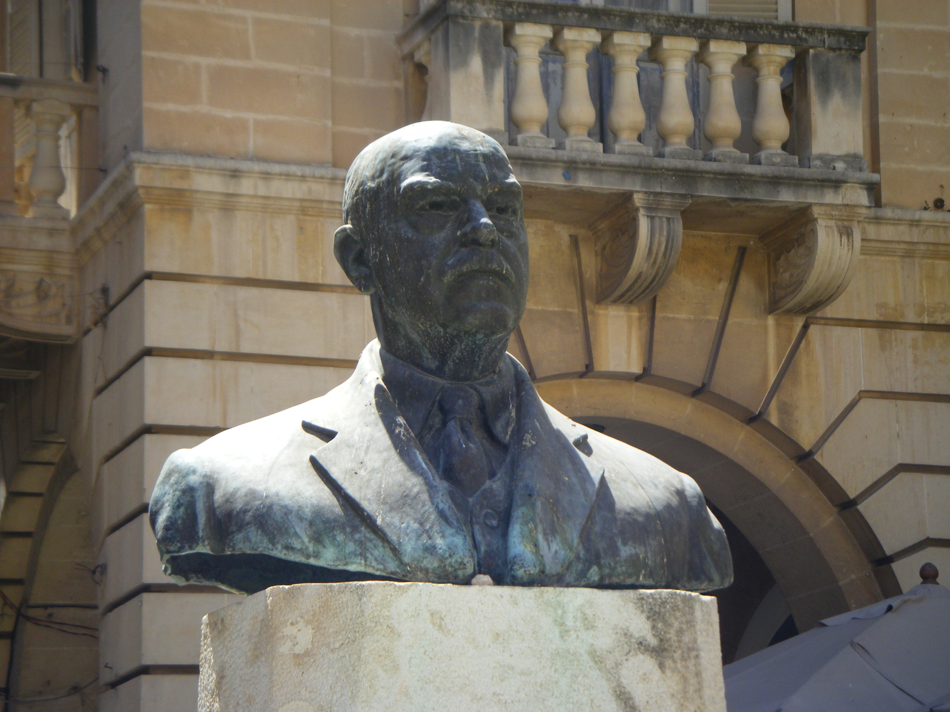 Bust of Enrico Mizzi by Vincent Apap in Valletta, Malta